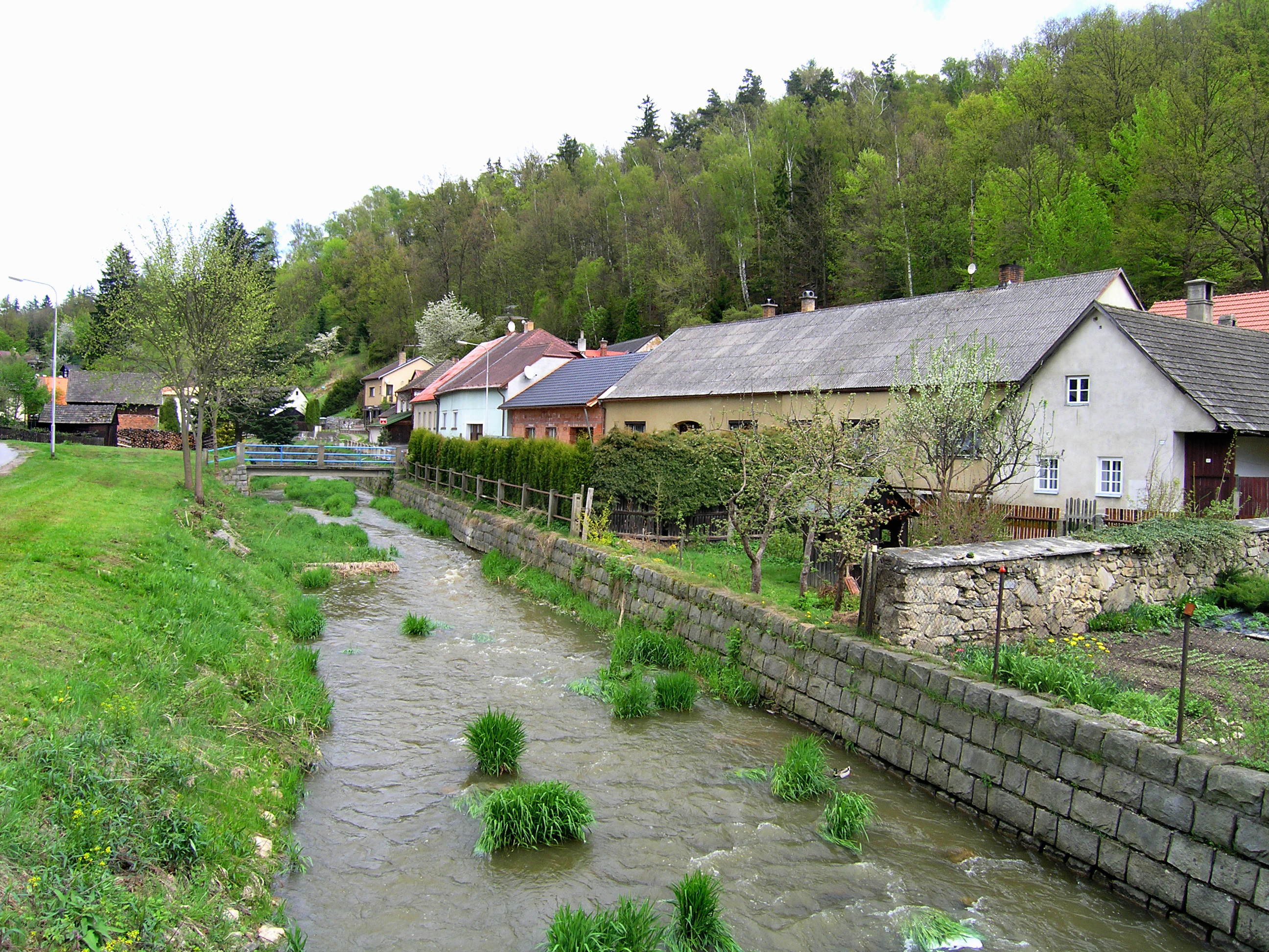 Kamenice River in Kamenice nad Lipou, Czech Republic